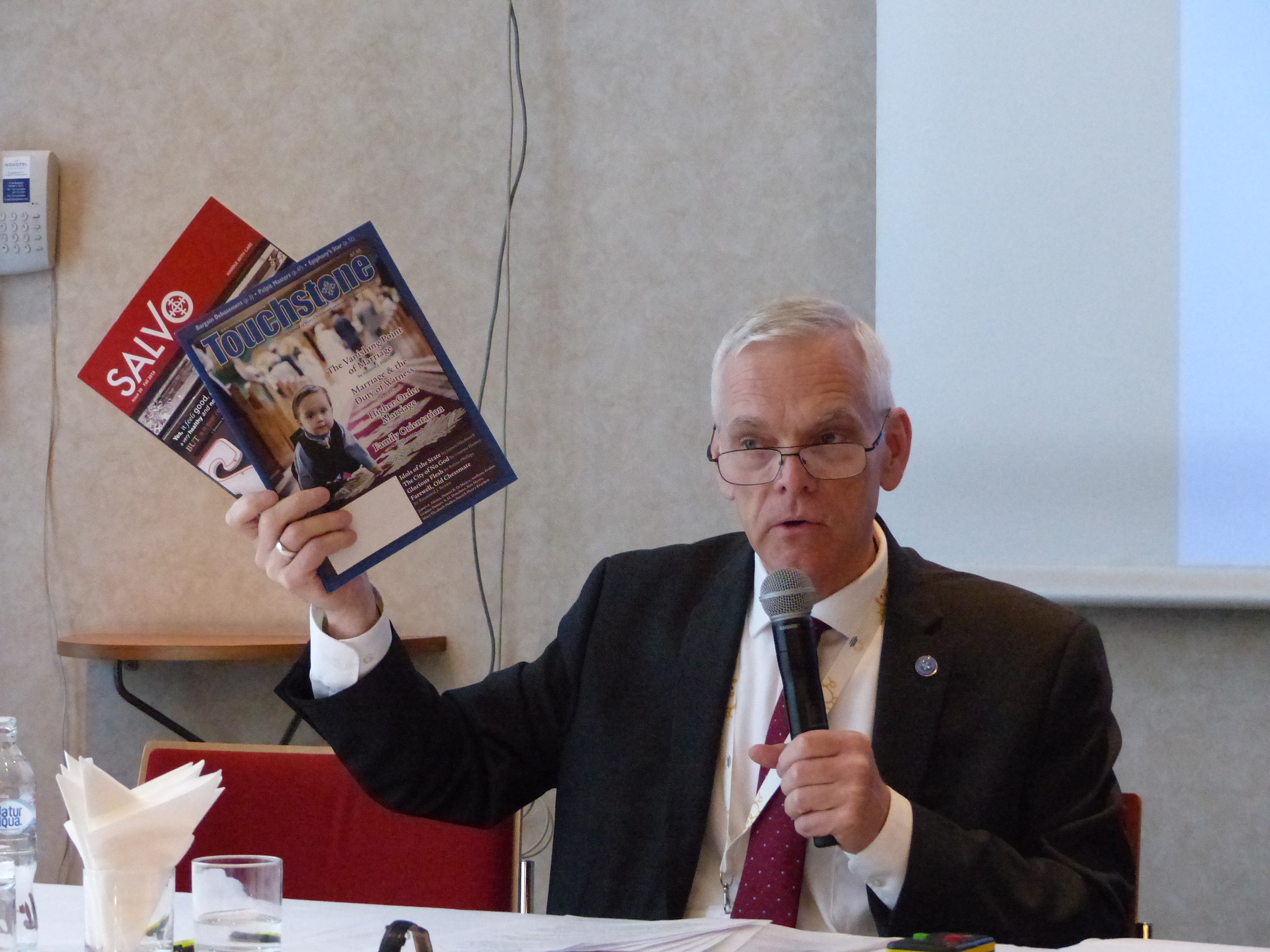 James Kushiner. The Fellowhip of Saint James, USA. Taken on the 27th of May, 2017. World Congress of Families XI. Budapest Congress Center. Hungary, Central Europe.